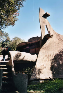 Unique, organic ferrocement shell structure designed by Vittorio Giorgini in Baratti, Italy